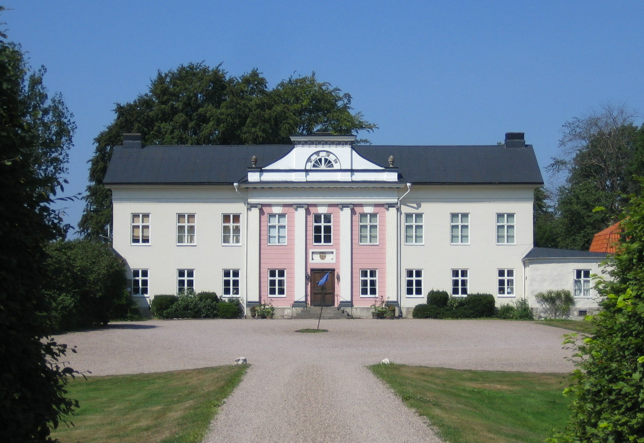 Picture of Össjö castle in Scania, Sweden.